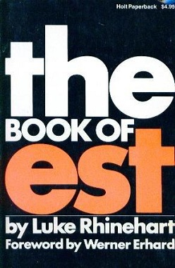 The first-edition front cover of the novel The Book of est.